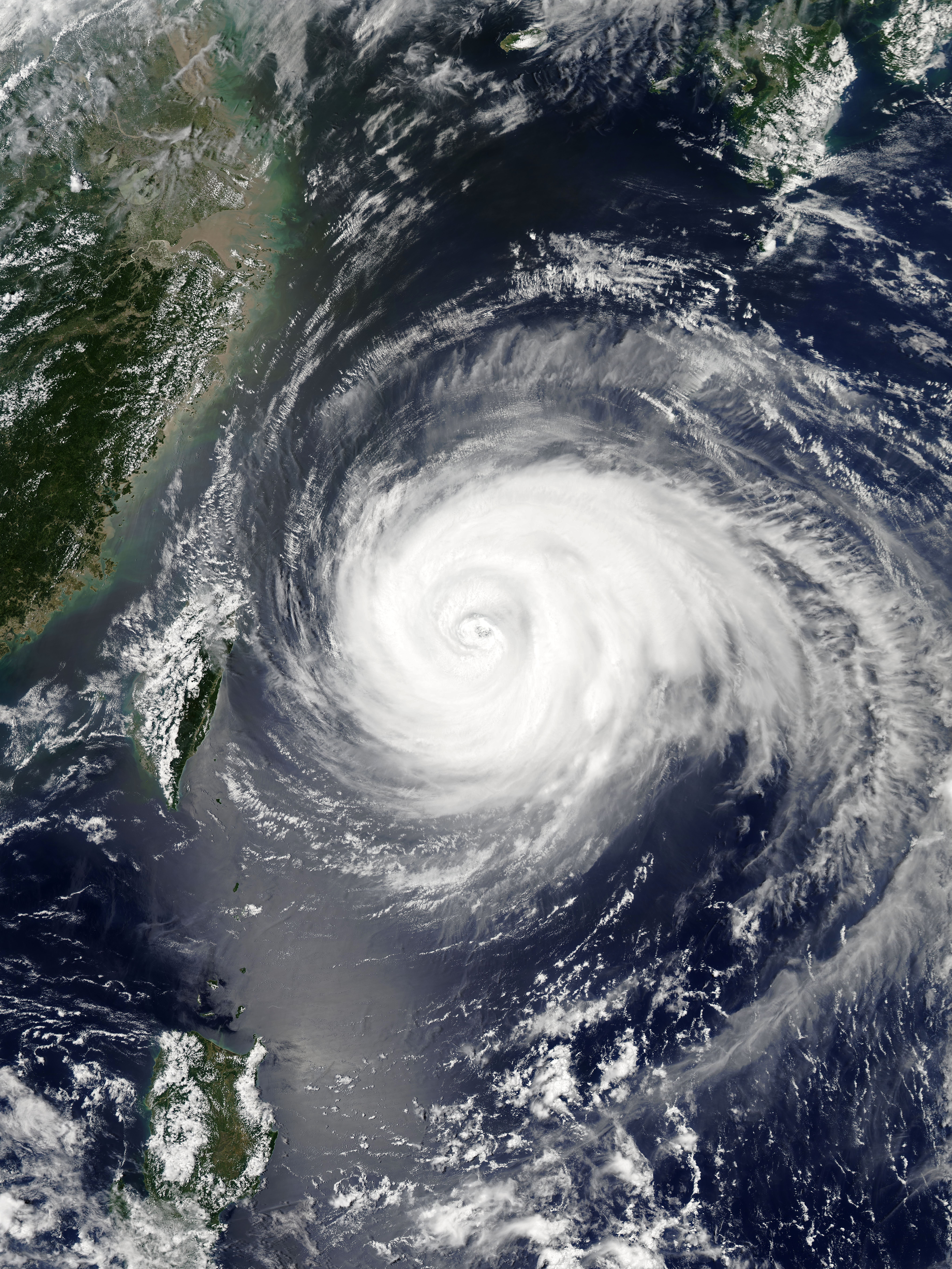 Typhoon Maria over the Yaeyama Islands and approaching Taiwan on July 10, 2018, undergoing another eyewall replacement cycle.